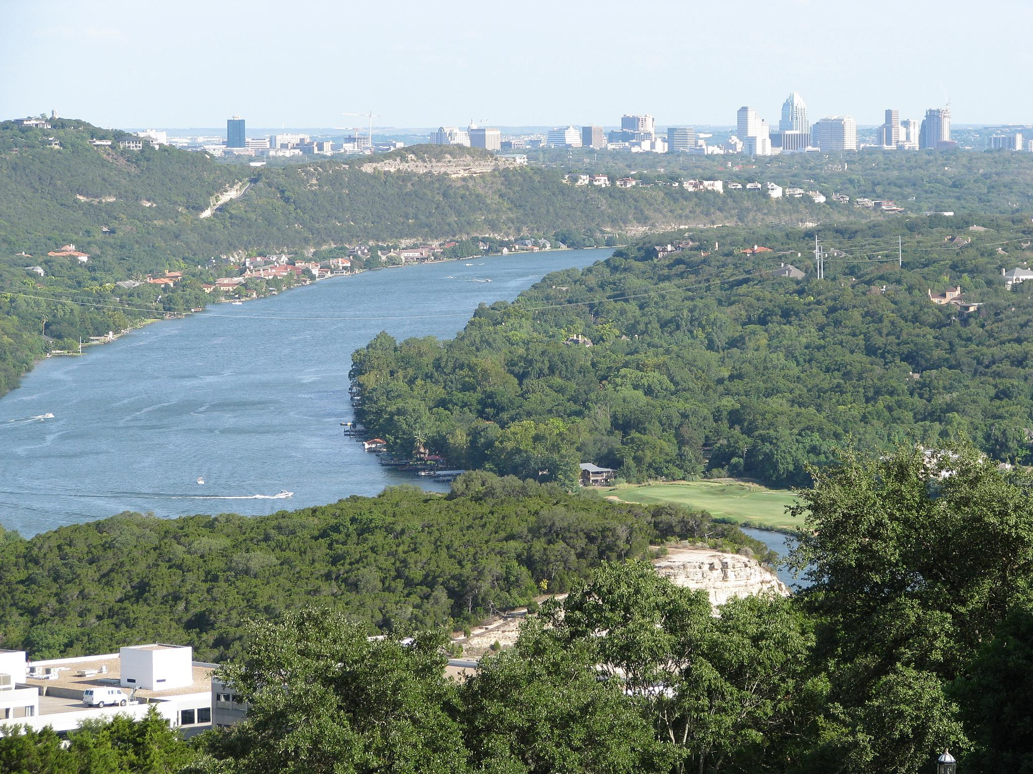 Silicon Hills picture photo